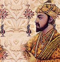 Shah Jahan, who commissionated the Taj Mahal